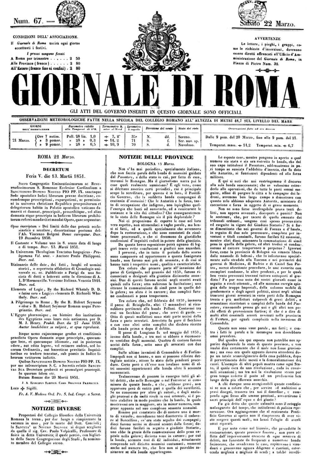 first page with description of criminal actions of the brigand Passator cortese